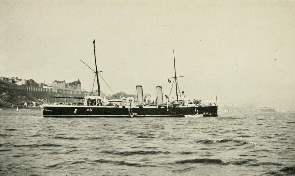 HMS Pallas 1901, photograph taken during the 1901 royal tour of Canada by Duke and Duchess of Cornwall and York, taken from the book "The Yankee in Quebec" by Anson Albert Gard.